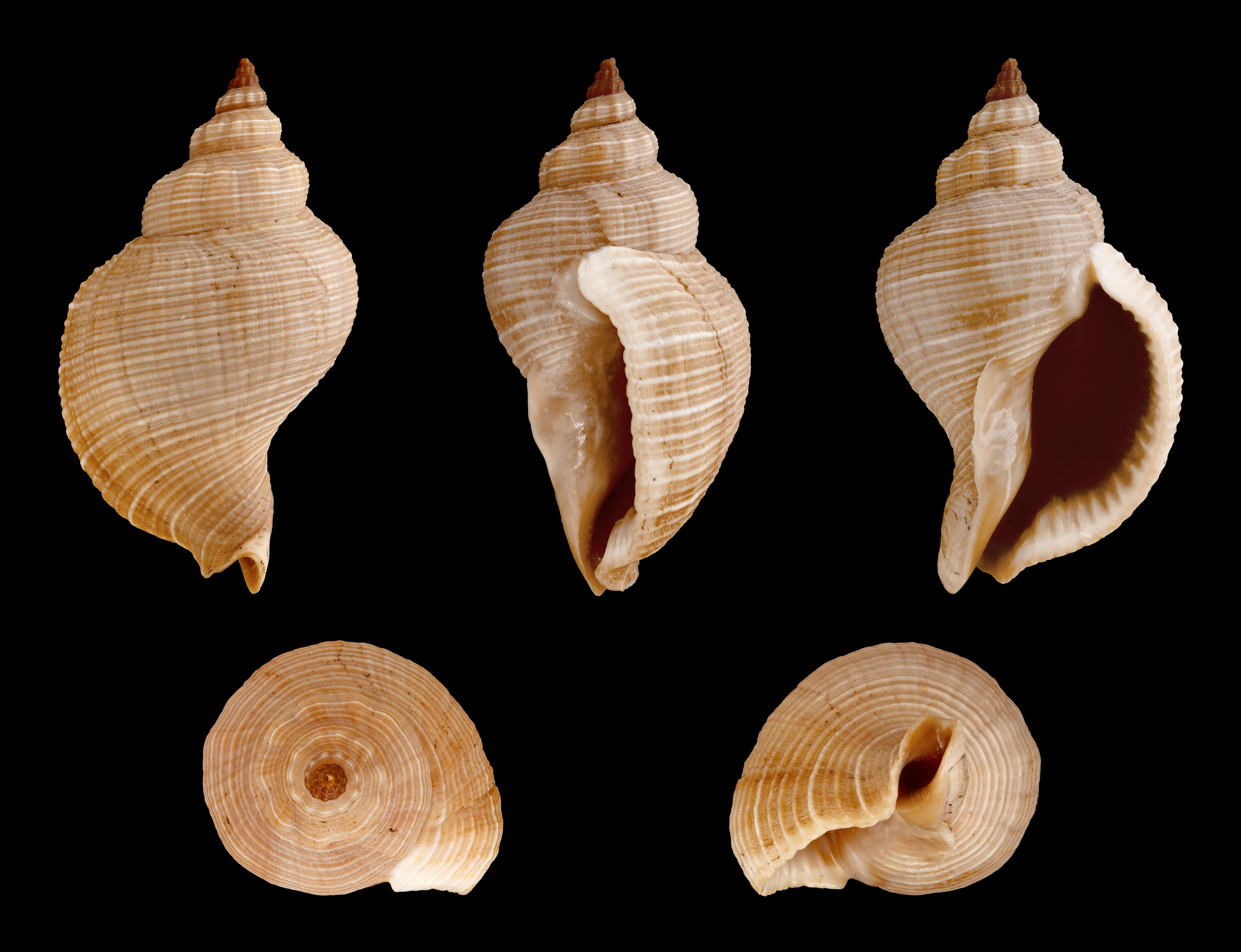 Hooped Whelk; Length 4.6 cm; Originating from Nada Wakayama, Japan; Shell of own collection, therefore not geocoded. Dorsal, lateral (right side), ventral, back, and front view.